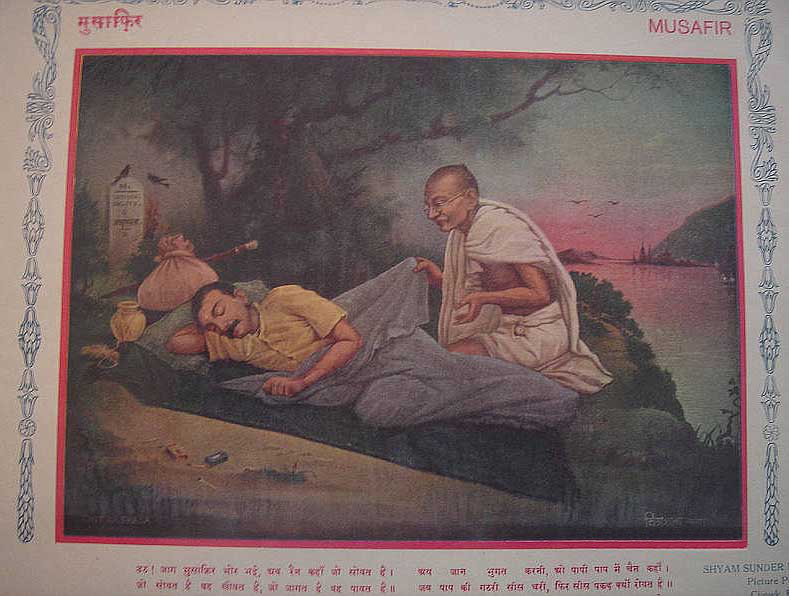 Gandhi urges the sleeping traveler to continue the journey toward the milestone that says "untouchability 0"; bazaar art, c.1940's Source: ebay, Apr. 2006